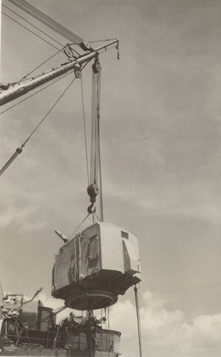 5" gun transfer from Oberrender DE 344 as replacement following a collision with Block Island CVE 106. Work done by Destroyer Tender Cascade AD 16, Kerama Retto, July 1945